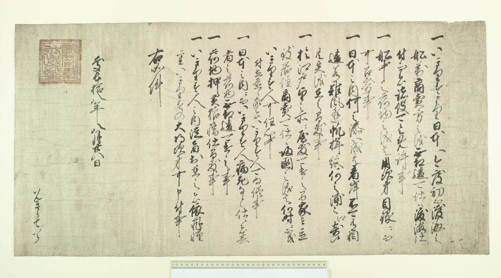 Japanese document titled "Shuinjo", with the original vermillion-seal of Shogun Tokugawa Ieyasu, granting trade privileges in Japan to the English East India Company in 1613.